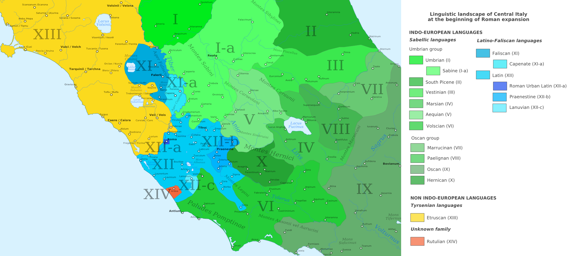 Languages of Central Italy at the beginning of Roman Expansion. Data taken from various works: The Latin Dialect of the Ager Faliscus. Tongues of Italy, Prehistory and History. Gli Antichi Italici and others. When no inscriptions were found in a certain ancient city, its language is suposed to be that of their local indigenous people.